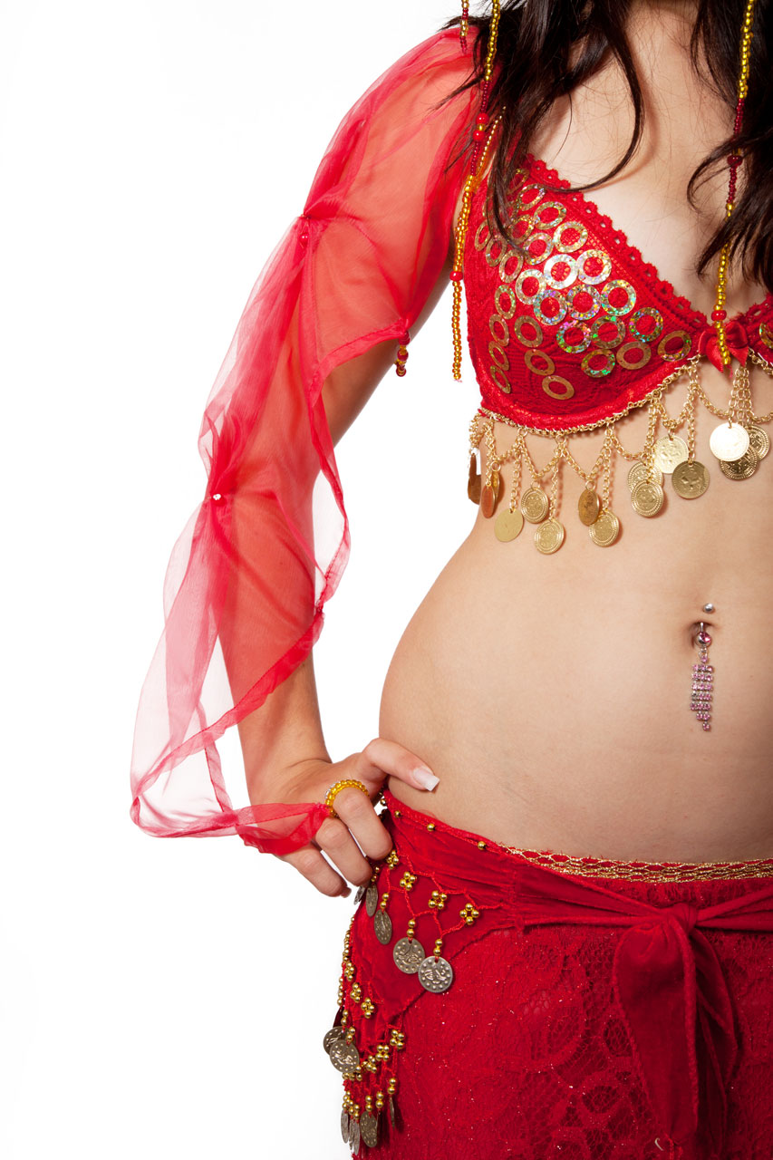 Belly-dancer-costume